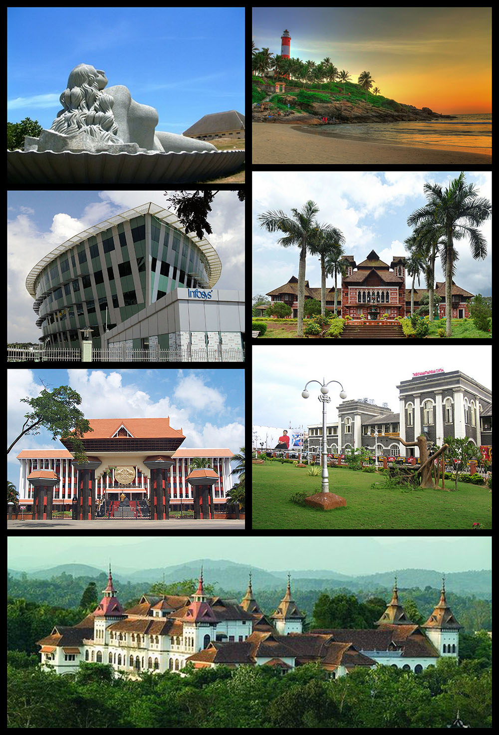 Sources Kovalam Beach - File:01KovalamBeach&Kerala.jpg Napier Museum - File:Napier Museum Thiruvananthapuran_DSW New.jpg Trivandrum Infosys - File:Thiruvananthapuram Infosys Building.JPG Jalakanyaka Mermaid - File:Meramaid1.jpg Niyamasabha - File:Niyamasabha.jpg Kowdiar Palace - File:Palace of Trivandrum.jpg Trivandrm Central - File:Tvmcentral.jpg